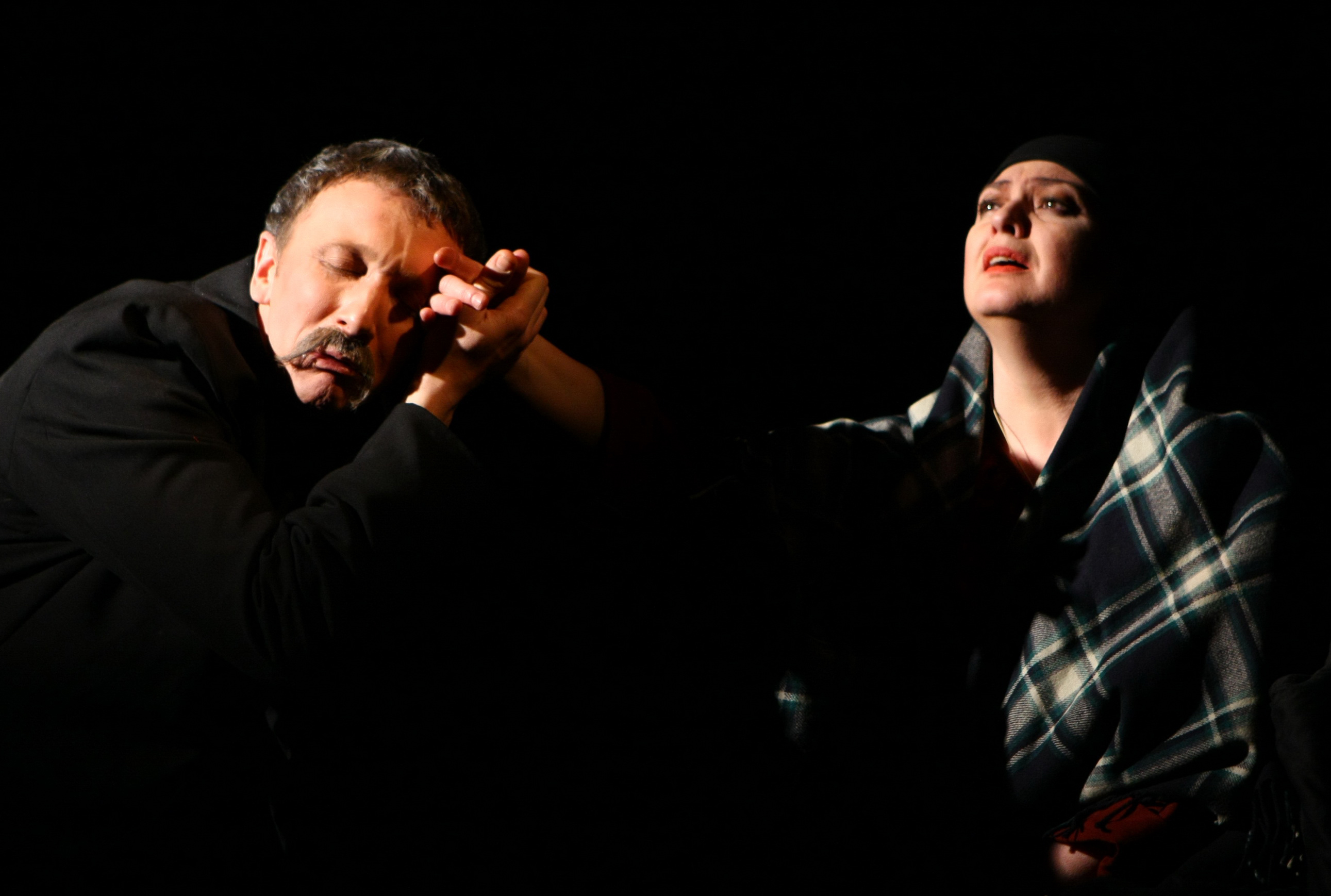 Mykola Bazhanov and Yaroslava Mosiychuk